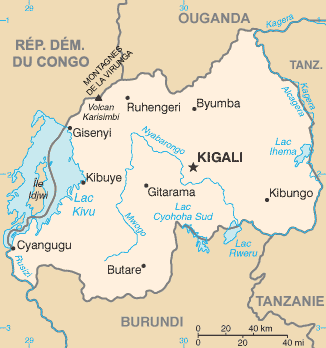 CIA World Factbook of Rwanda, translated to French.